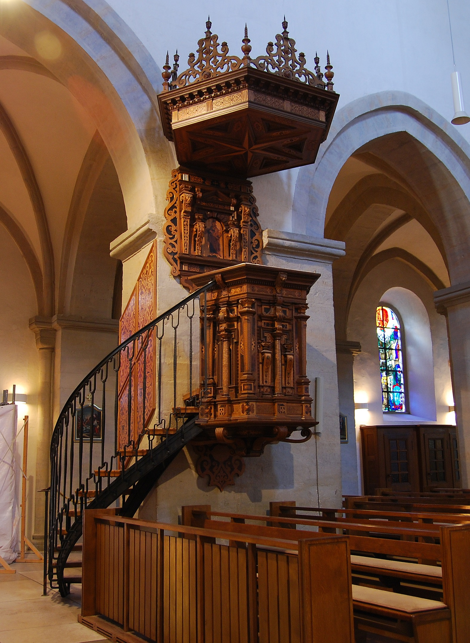 Pulpit in Breisach Minster.